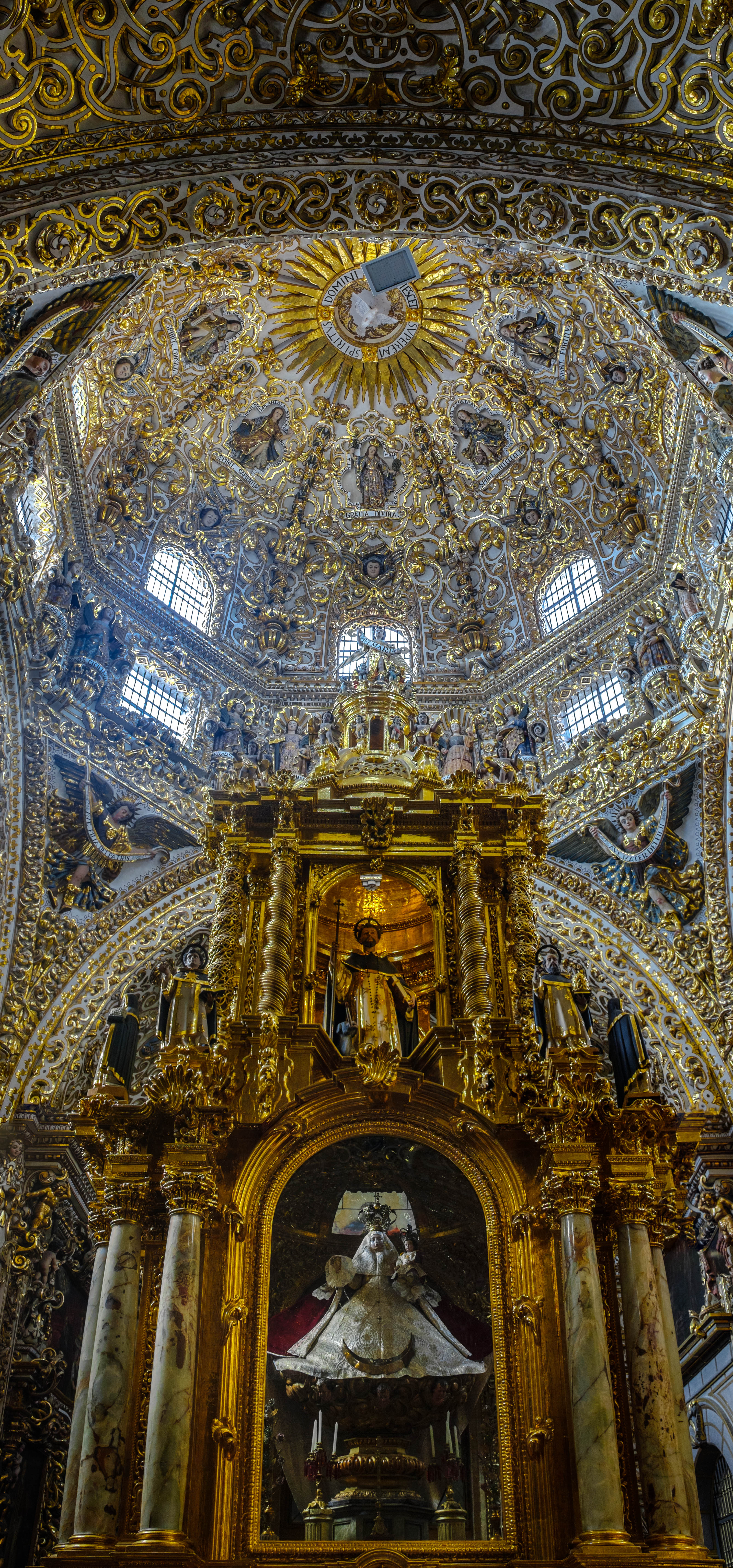 The Chapel of Our Lady of the Rosary at Santo Domingo Church in Puebla, Mexico.